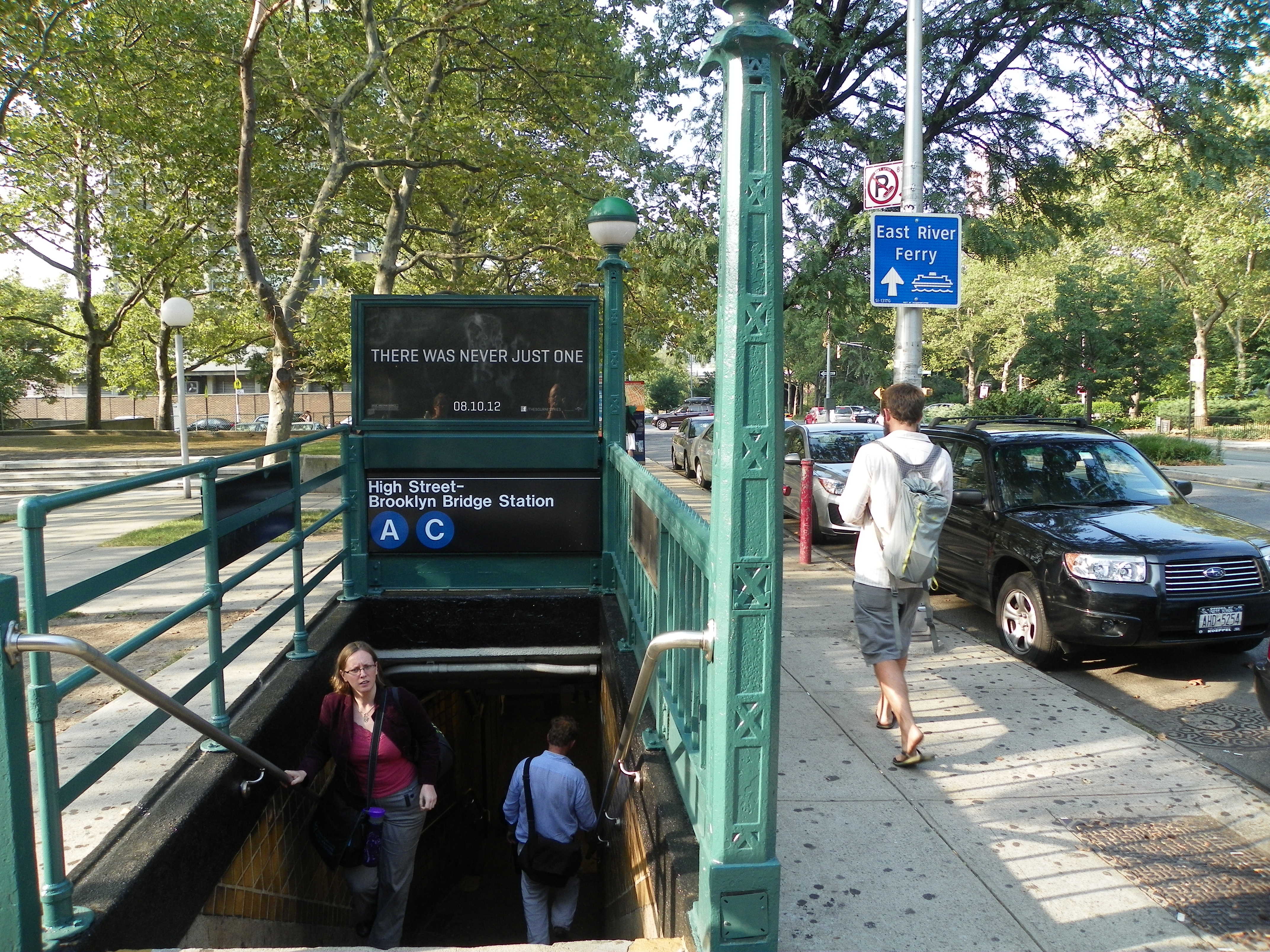 A train from Fulton St To Hoyt Schemerhorn in Brooklyn